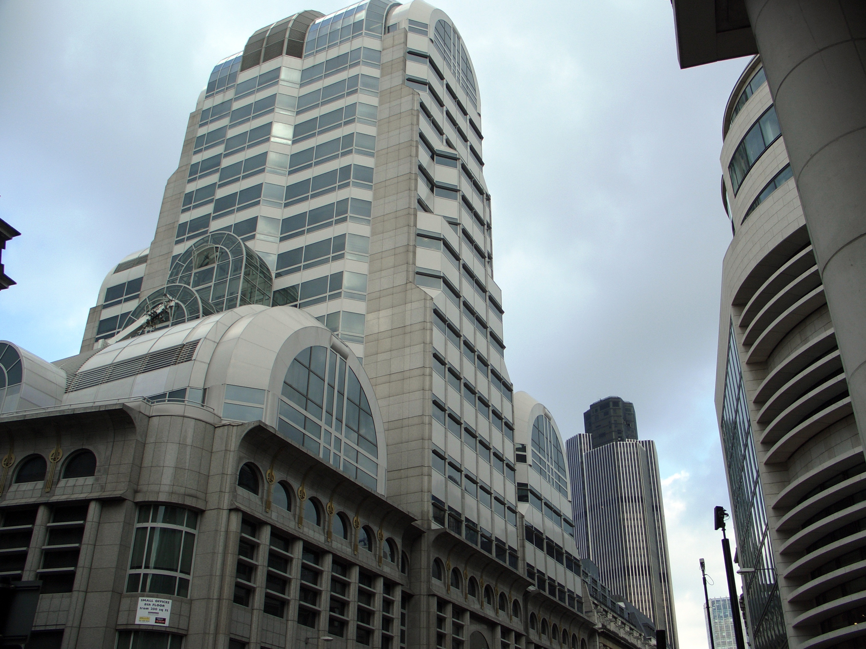 Londres - 54, Lombard Street